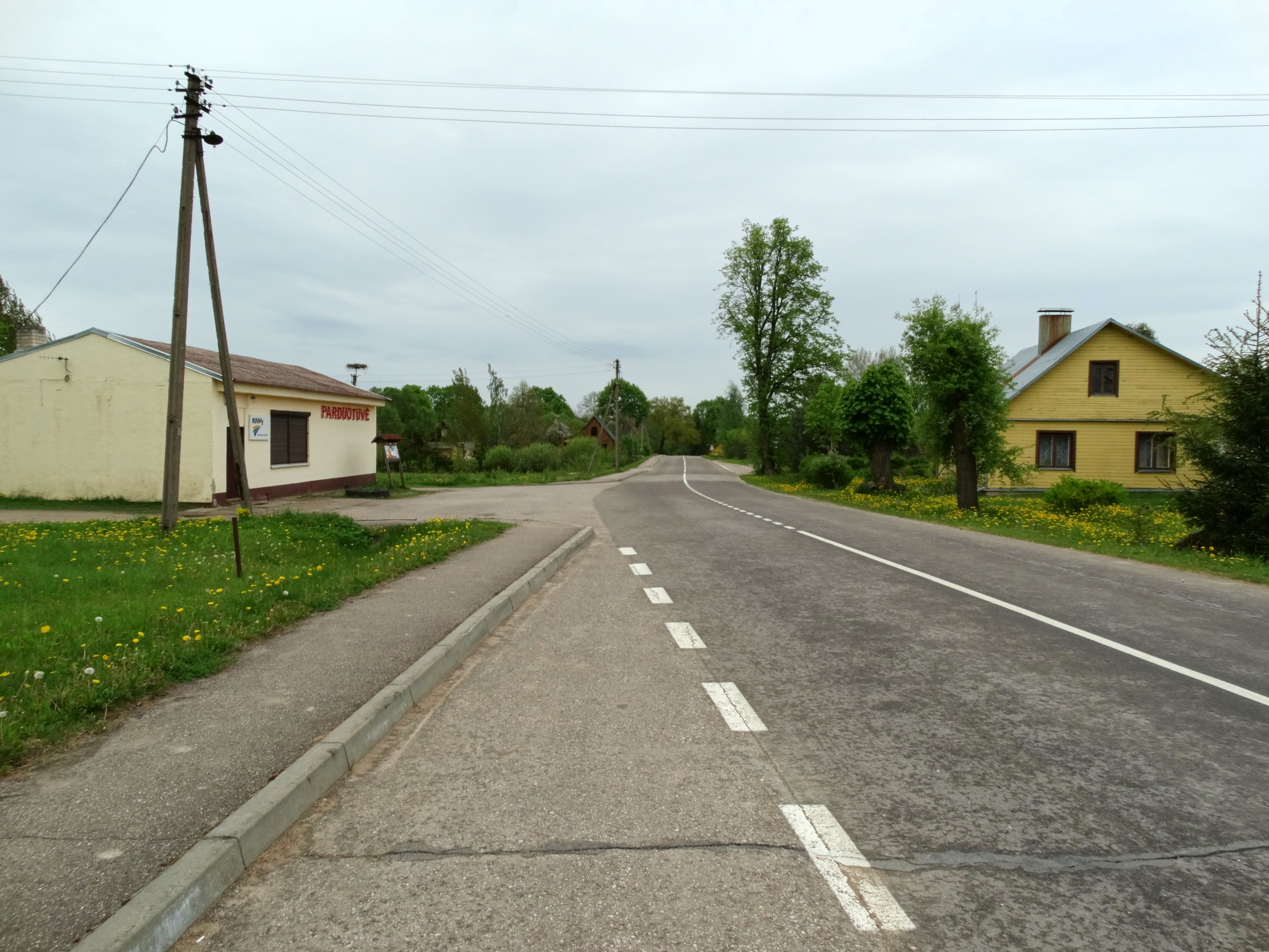 Pusnė, Molėtai District, Lithuania